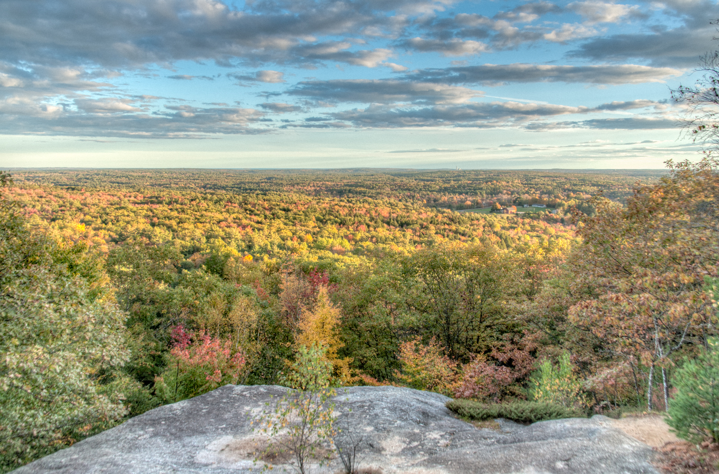 Taken from the top of Bradbury Mountain in Pownal, Maine as the sun was getting close to setting. This is a HDR of three images covering 2 stops using Photomatix. Bradbury Mountain State Park is an 800-acre (320 ha) state park in Pownal, Cumberland County, Maine. The land was acquired by the federal government of the United States in 1939 with the park being founded in the 1940s. Its borders were extended in the 1990s and 2000s across Maine Route 9 with the addition of the Knight Woods parcels. It was one of the Maine's original five state parks. While Bradbury Mountain itself is not particularly high—it stands less than 500 feet high—it is a popular destination for hikers, who are rewarded with good views after a relatively short climb. The underlying material, exposed at the summit, is granite and pegmatite. The park's trails have also become popular with mountain bikers, to whom most trails in the park are open. Bradbury Mountain is a popular hike during all seasons, including winter. (Wikipedia)